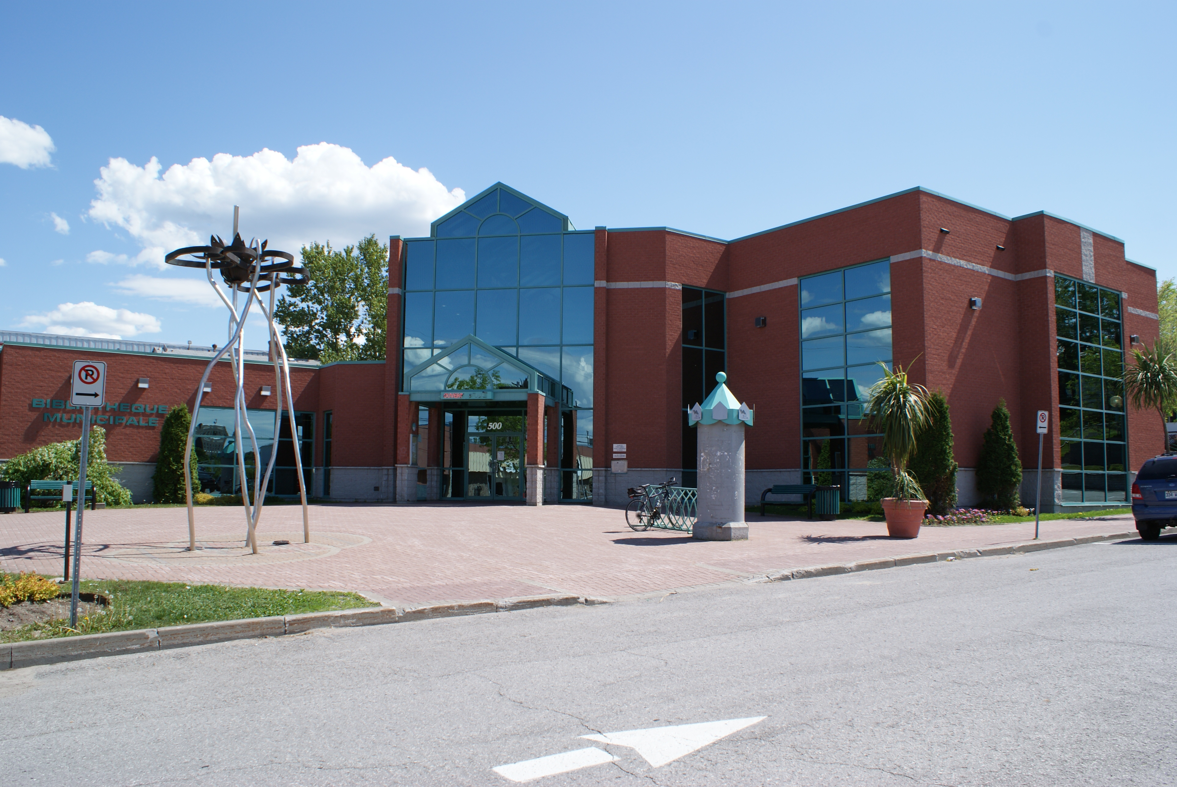 Library in Alma, Qc